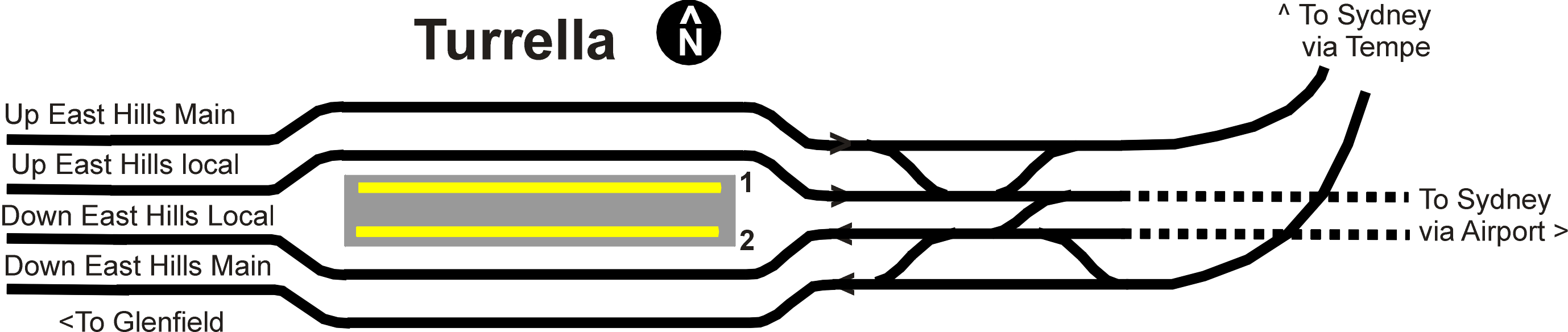 Track arrangement at Turrella railway station, Sydney.